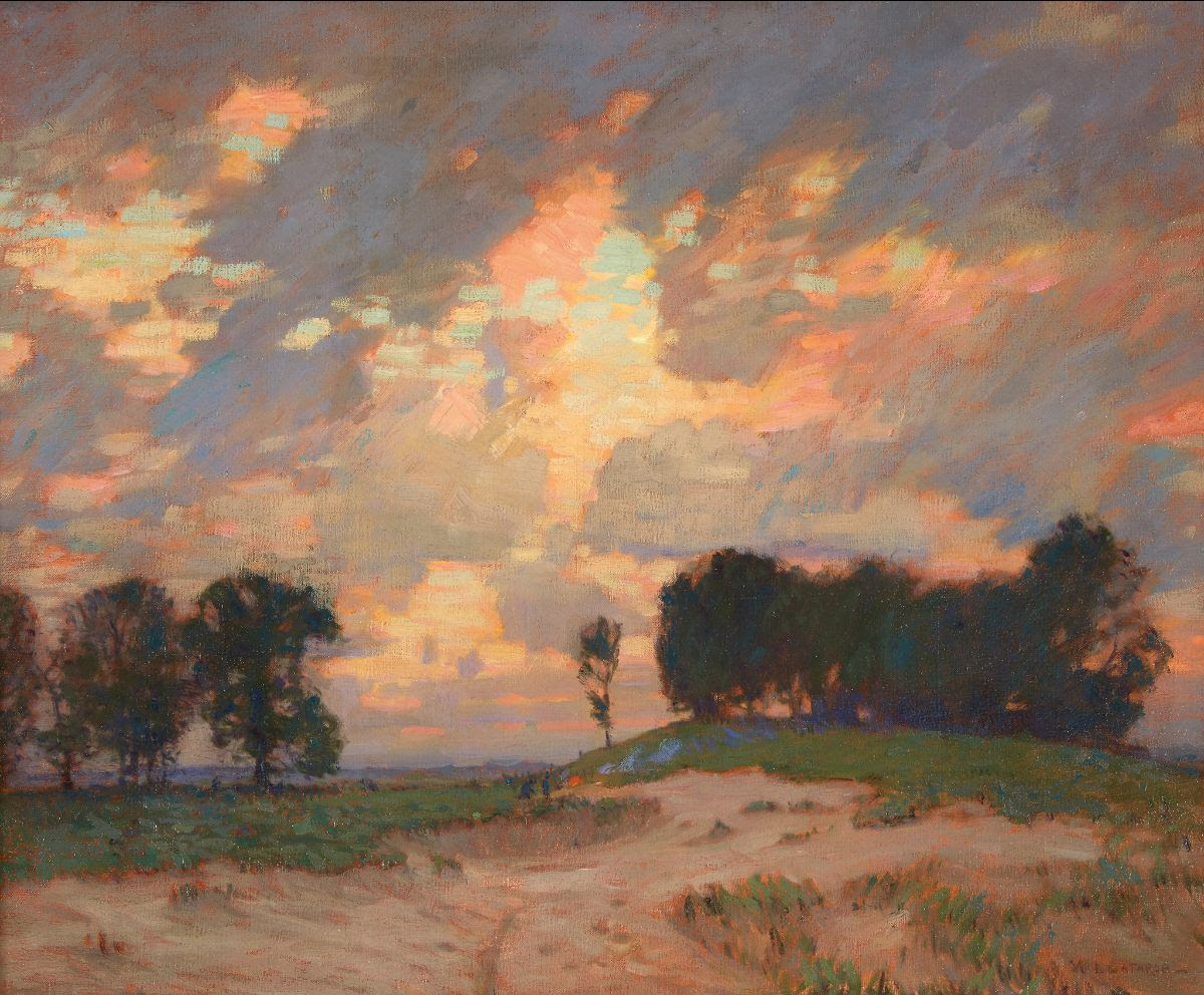 The Bonfire by William Langson Lathrop, 1921